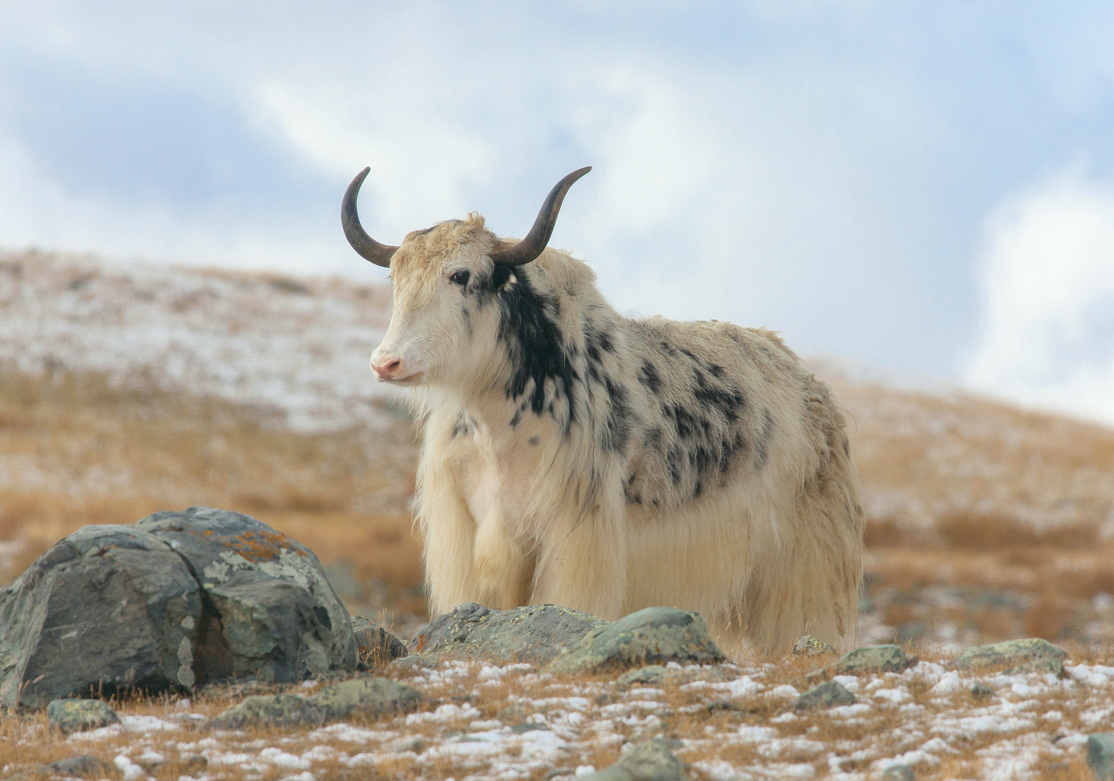 Sarlyk is called Tibetan Yak in Altai